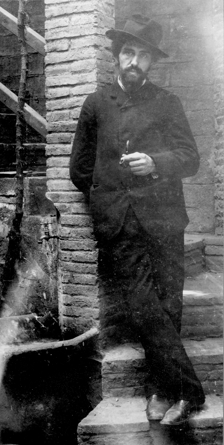 Portrait photograph of Joaquín Torres-García, 1903, at the Sagrada Família, Barcelona